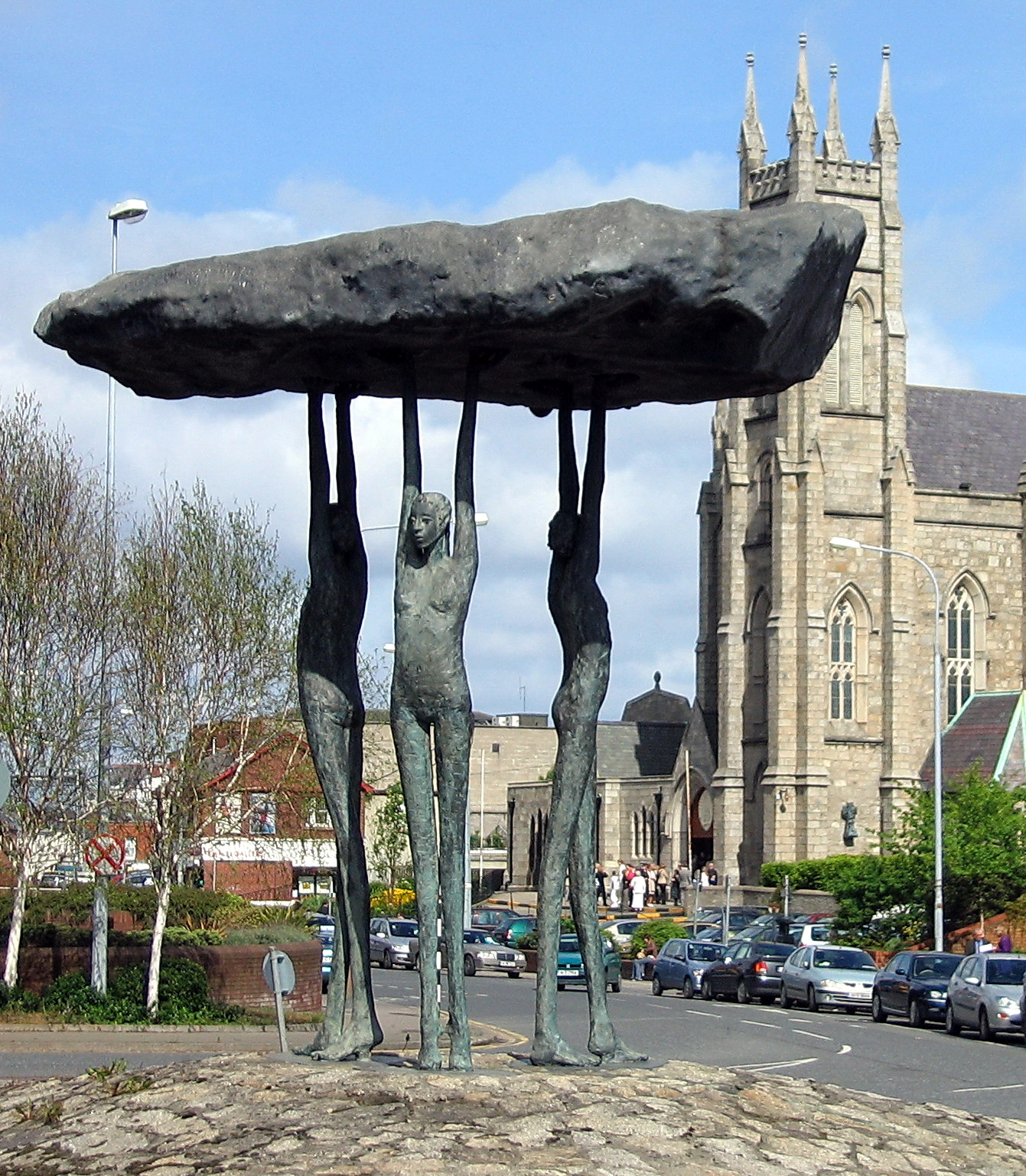 "Blackrock Dolmen" - a sculpture by Rowan Gillespie, Blackrock, Dublin